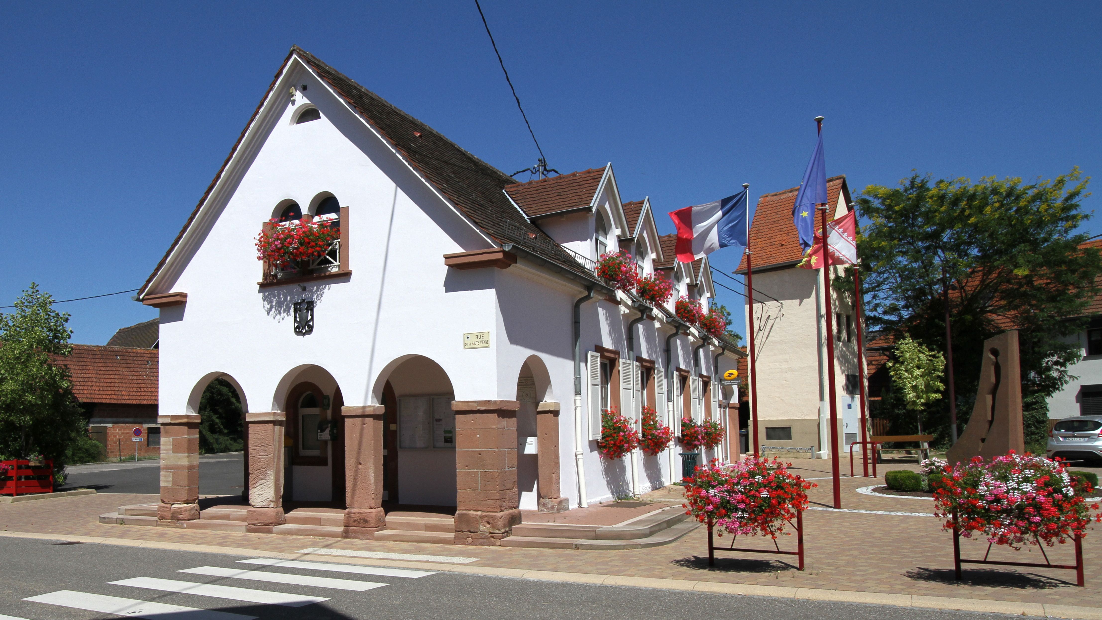 City hall of Niederroedern